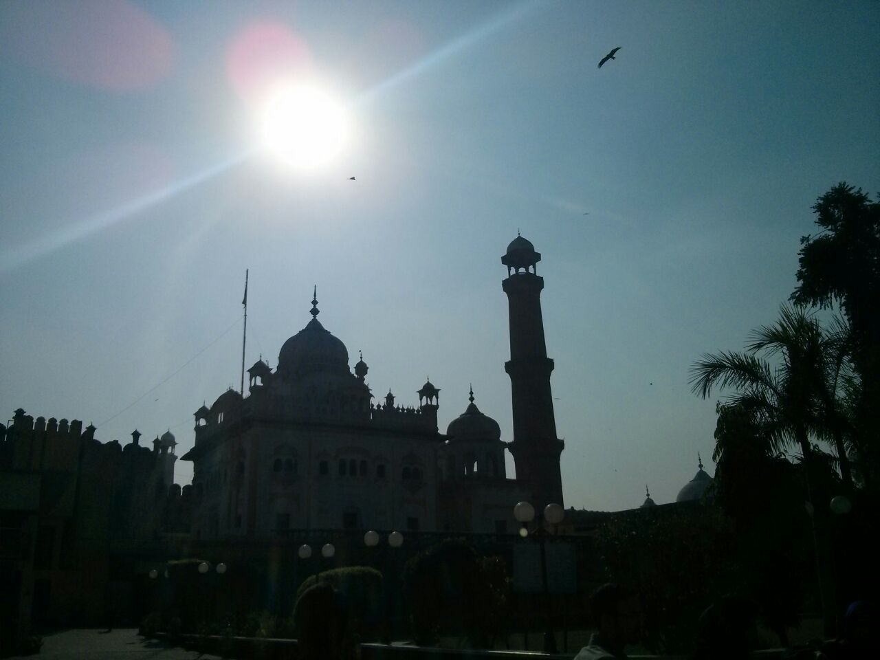 Gurudwara Dera Sahib Panjvin Patshahi (1563- 1606 A.D), Lahore, Pakistan